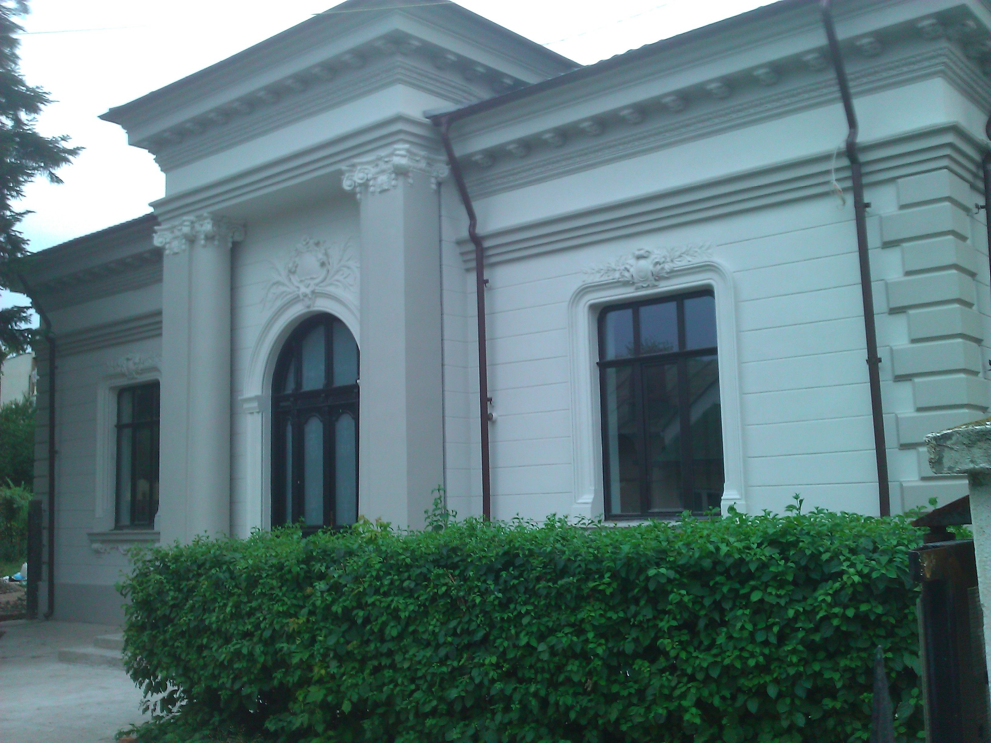 Historic house located on Ionita Sandu Sturdza street, no 39, Bacau, RO